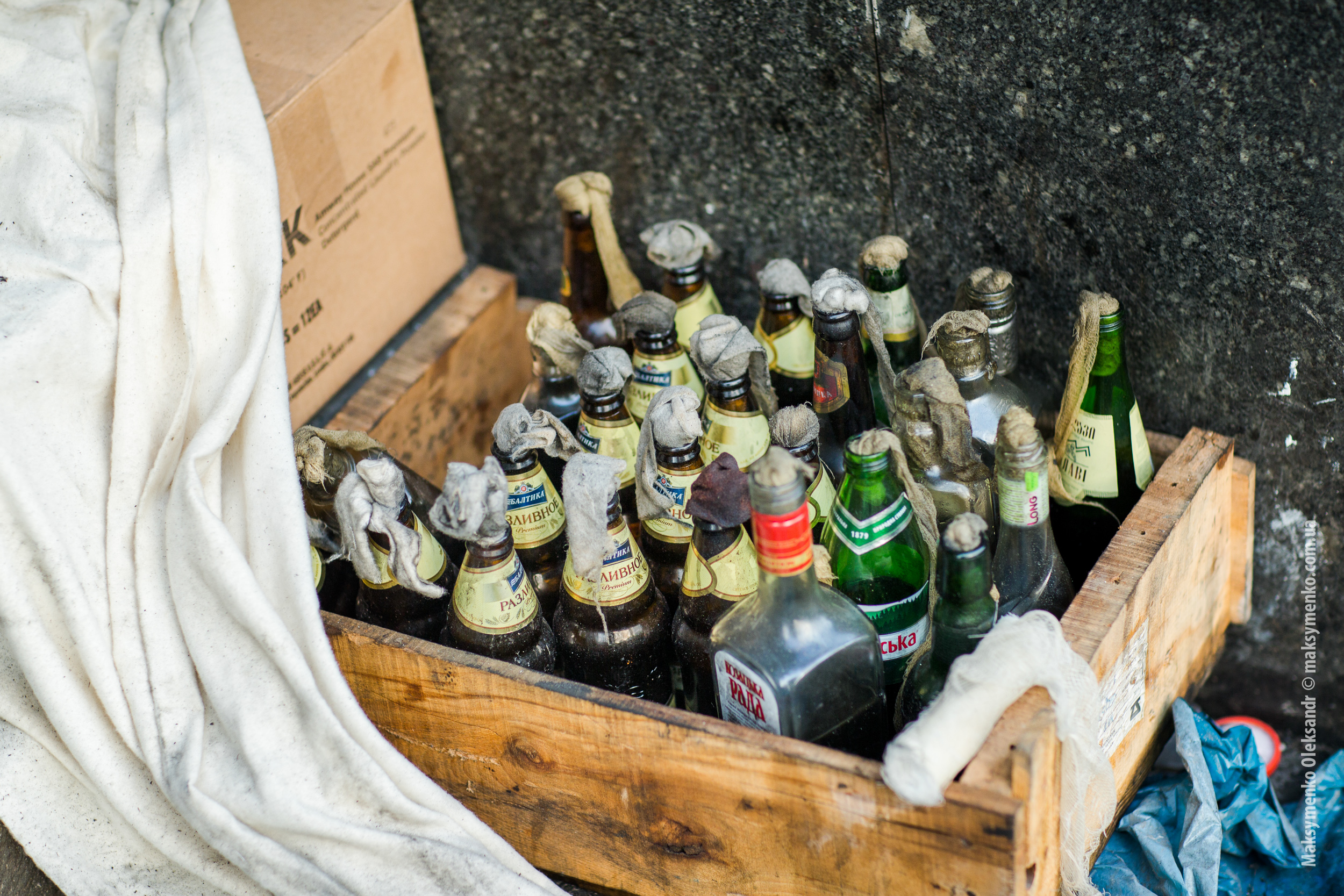 Anti-government protests in Kiev